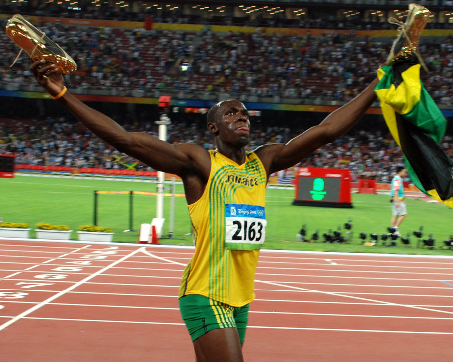 Usain Bolt after his victory and world record in the 100m at the bird's nest, during 2008 Beijing olympics, august 16th